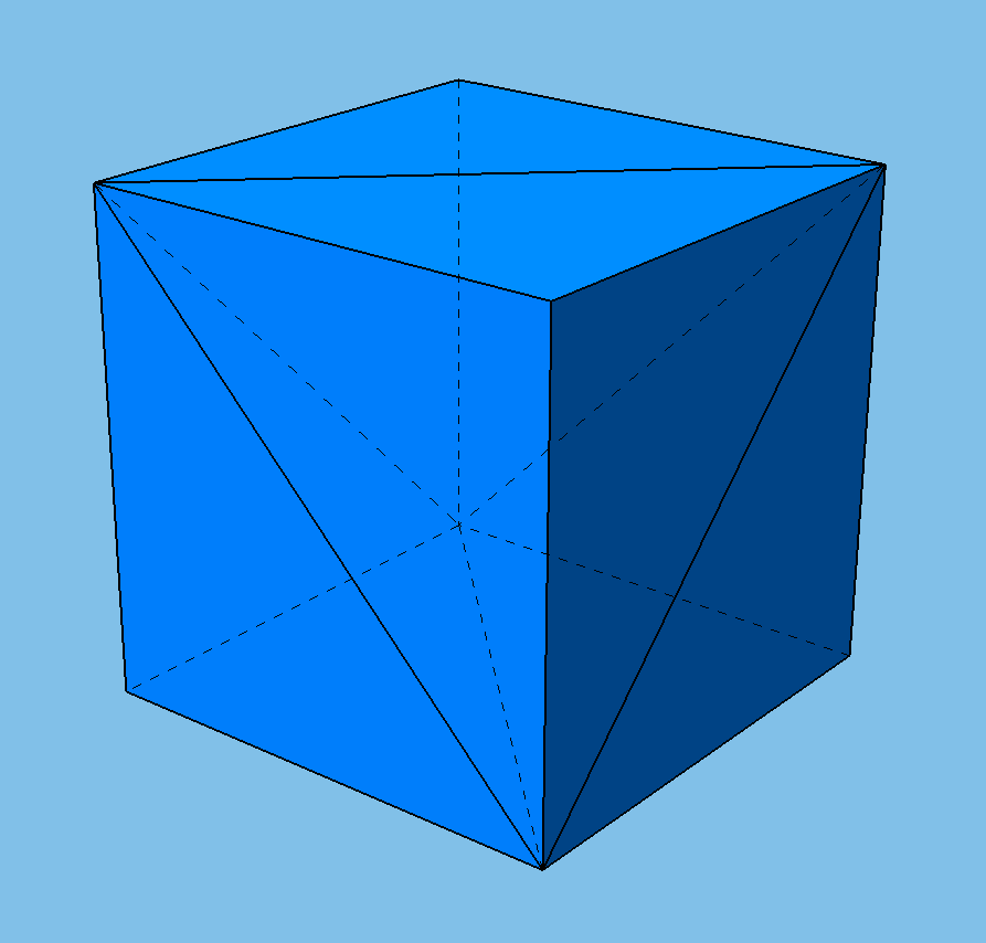 Four times truncated cube.